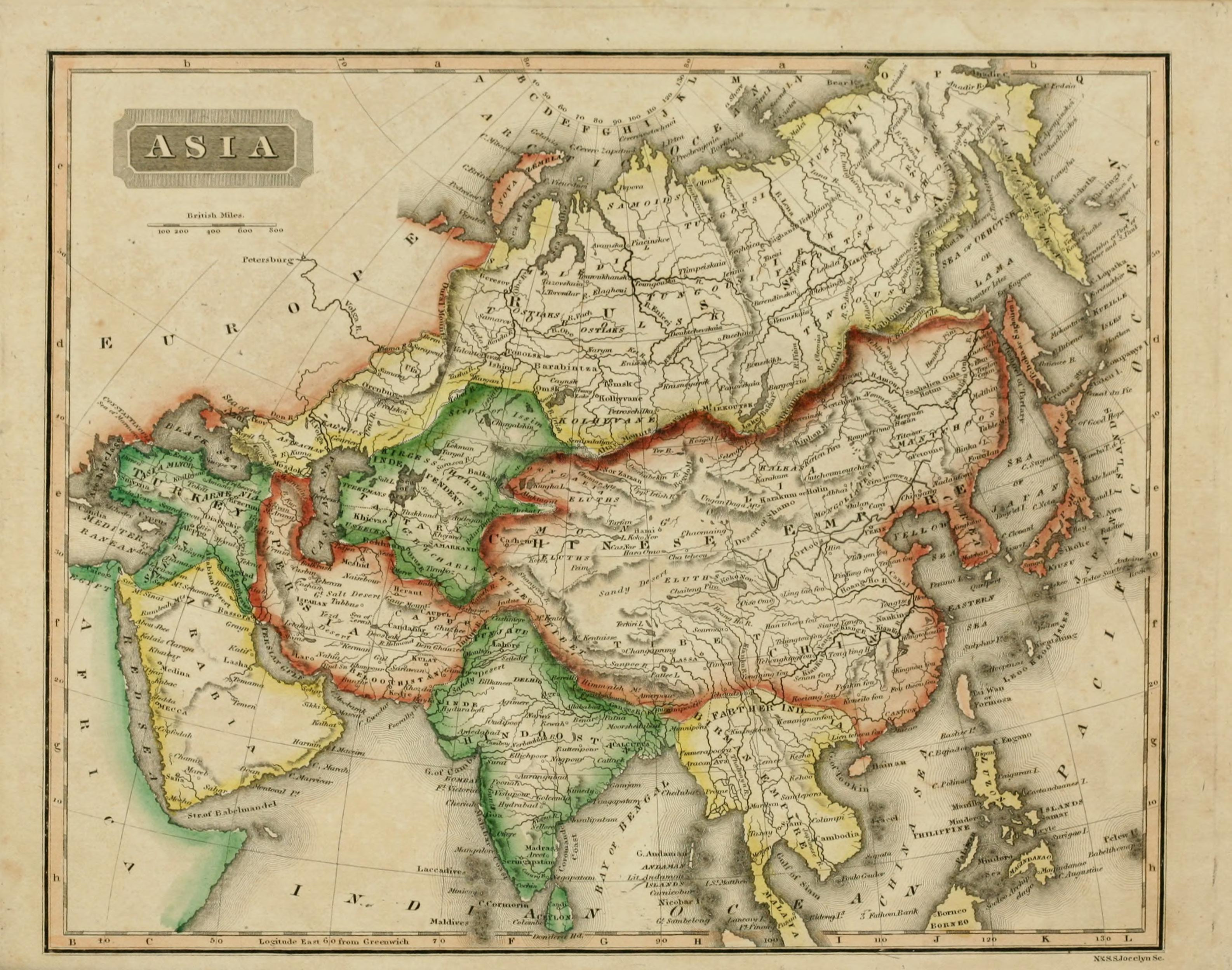 Map of Asi in « A new universal atlas of the world : on an improved plan ; consisting of thirty maps, carefully prepared from the latest authorities ; with complete alphabetical indexes » by Sidney Edwards Morse